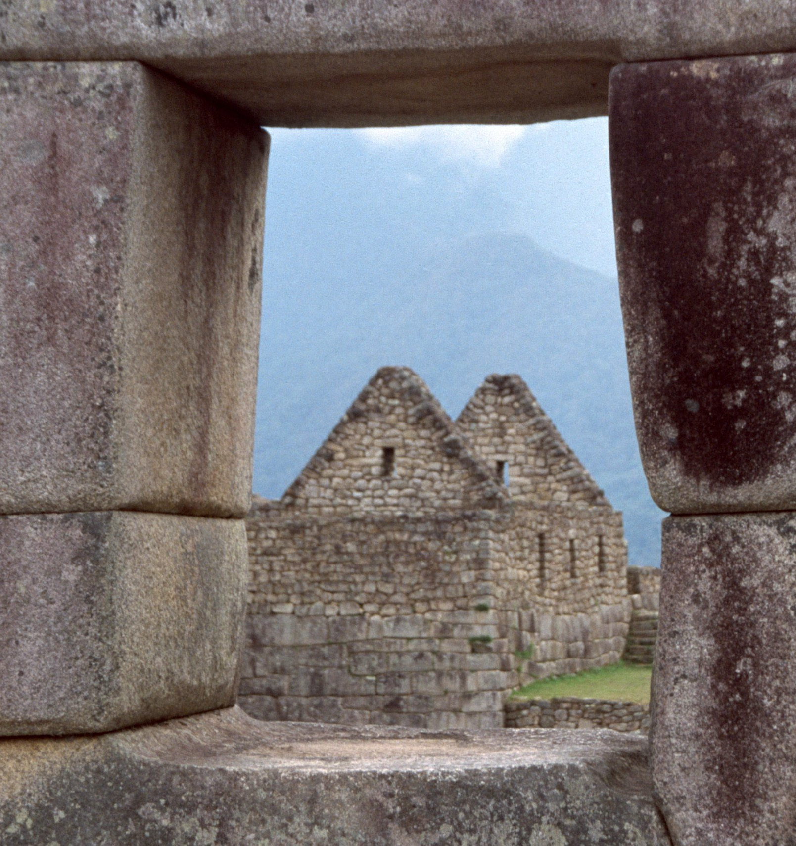 Roof of Inca buildings